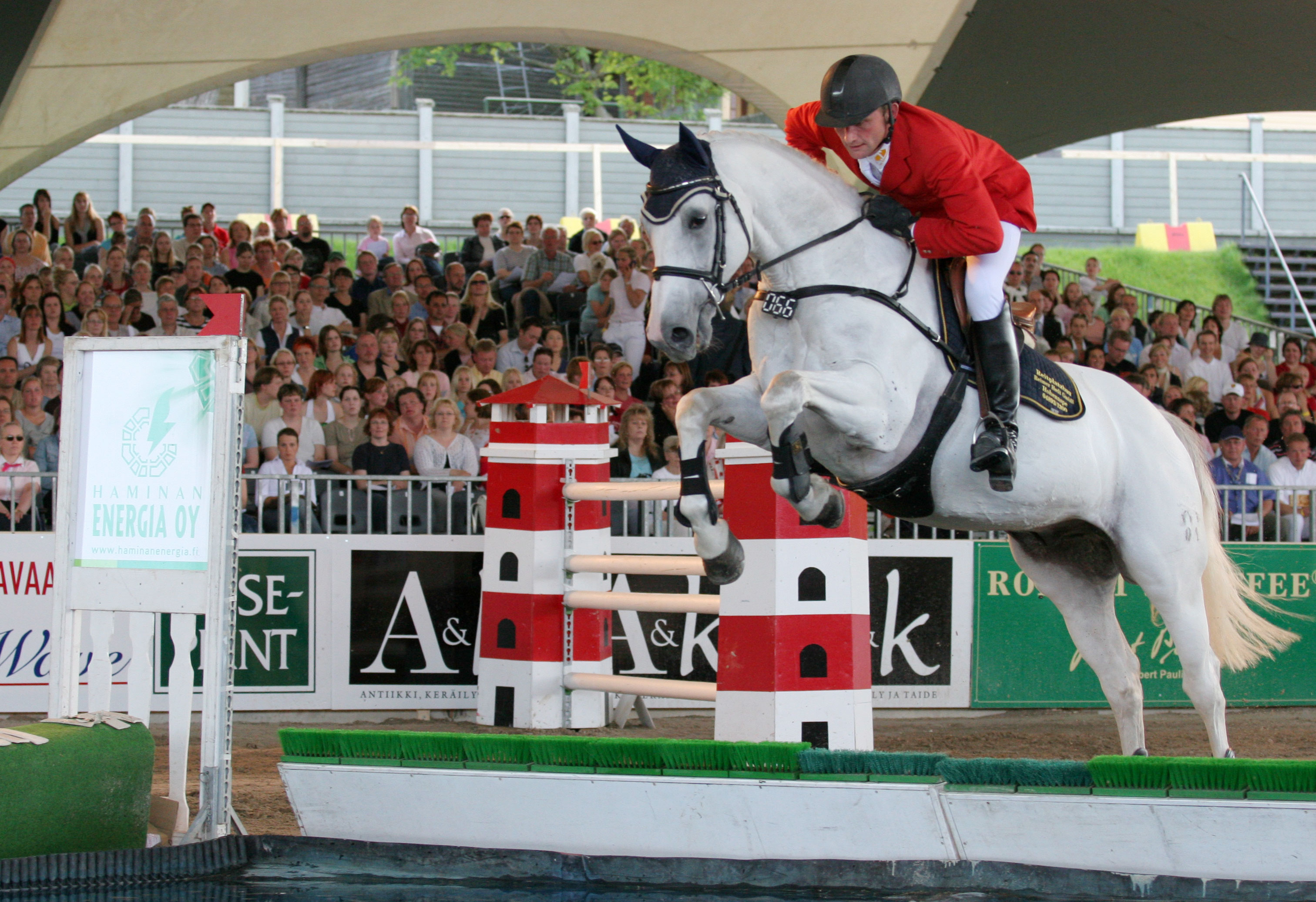 Show jumping at Hamina Bastioni Horse Festival